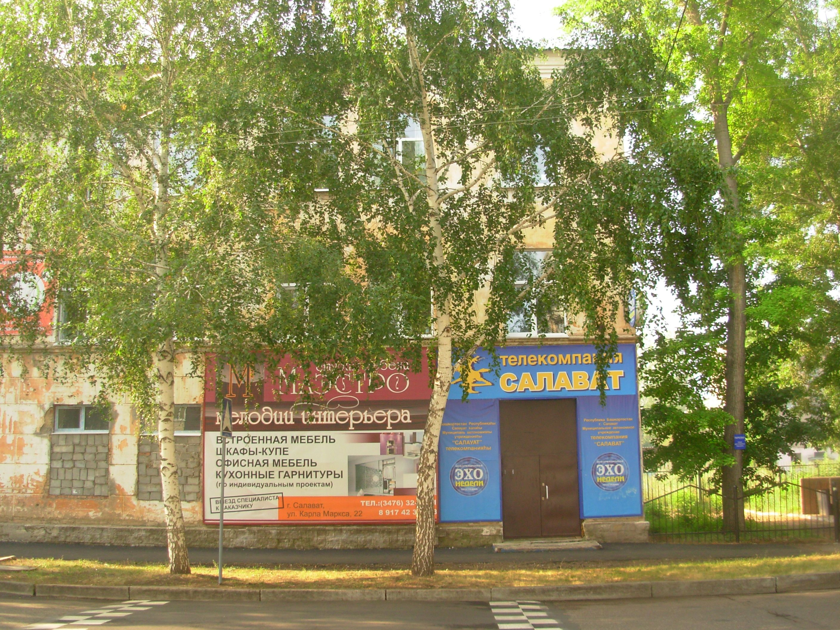 Telecompany Salavat